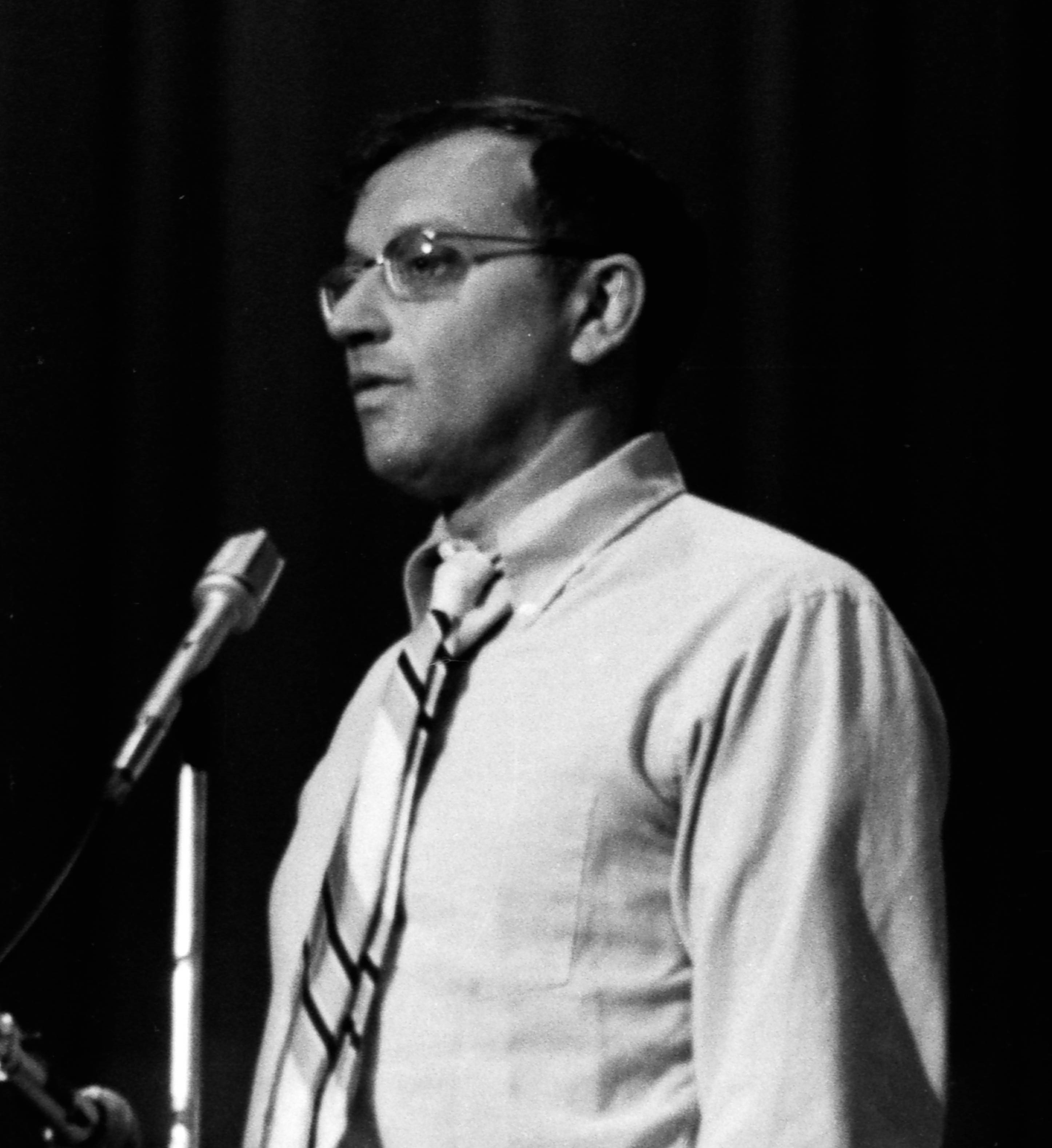 I (Robert Swirsky) took this photo August 29, 1976 and want to add it to the page for Allard Lowenstein.